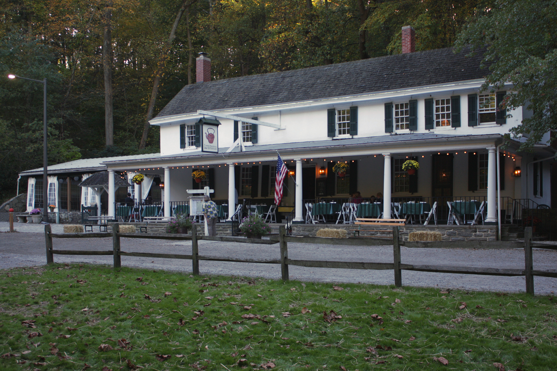 Valley Green Inn, Wissahickon Valley Park, Philadelphia, Pennsylvania, United States